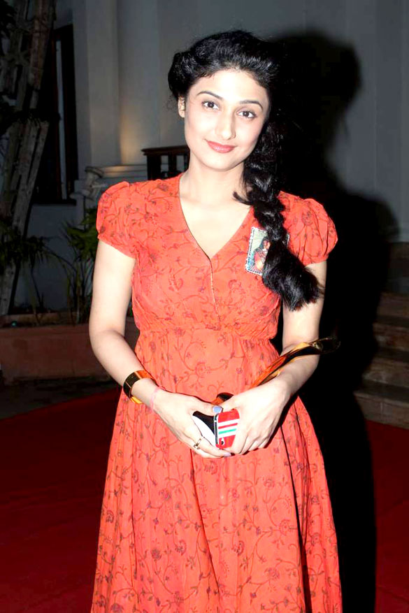 Ragini aiatc awards